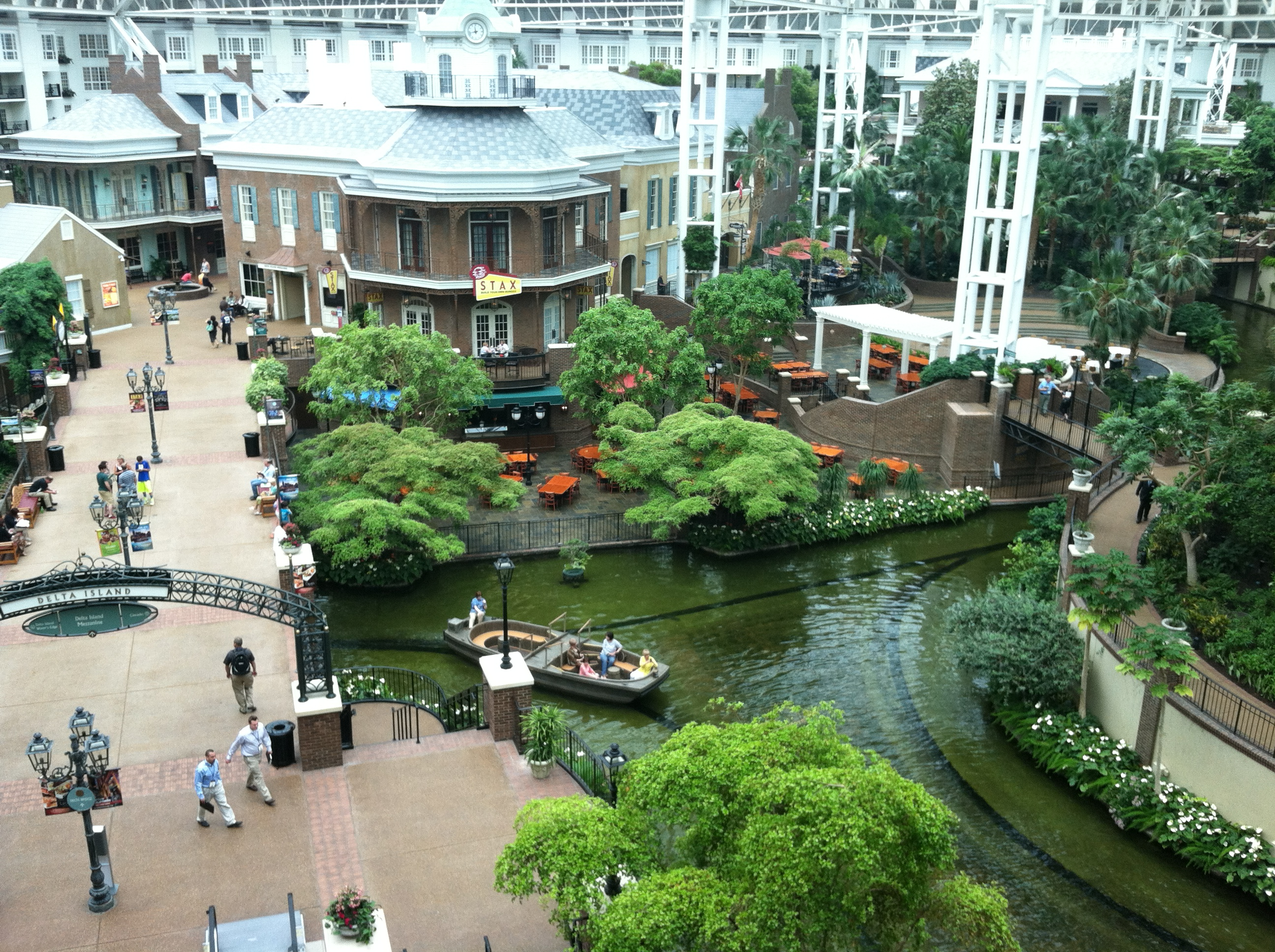 Interior of Gaylord Opryland Resort & Convention Center